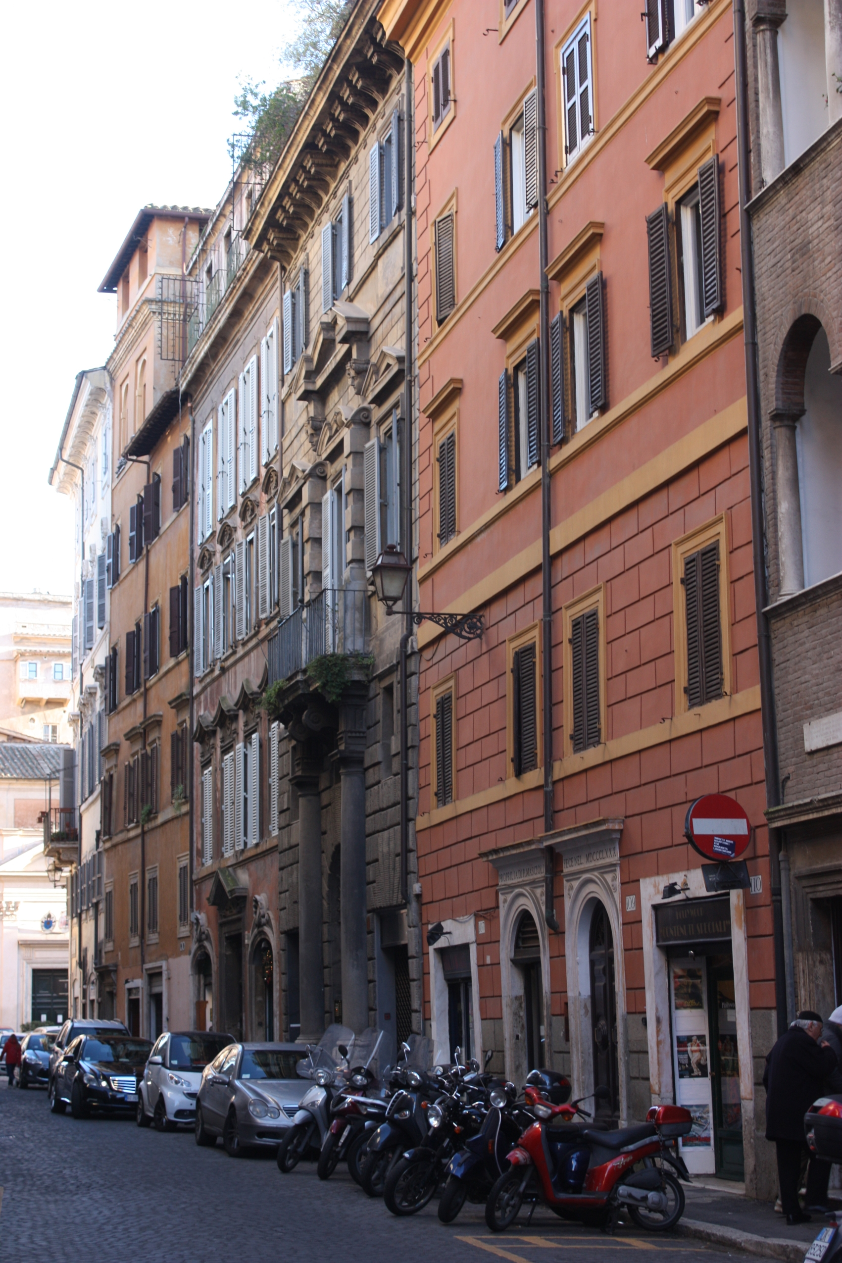 Rome, a raw of houses on the street Via di Monserrato